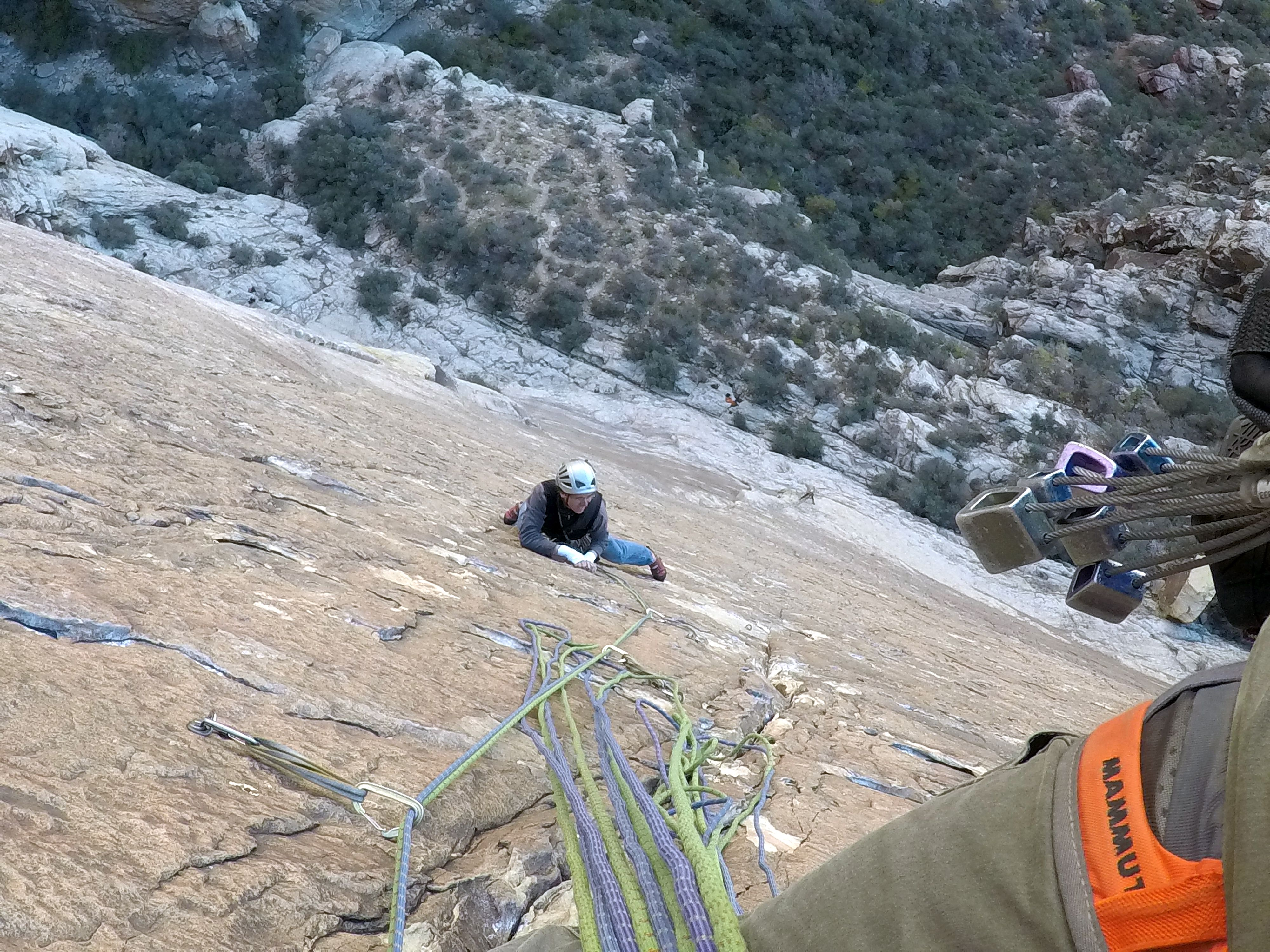 Red Rock Canyon National Conservation Area: Climbing Prince of Darkness (5.10c).